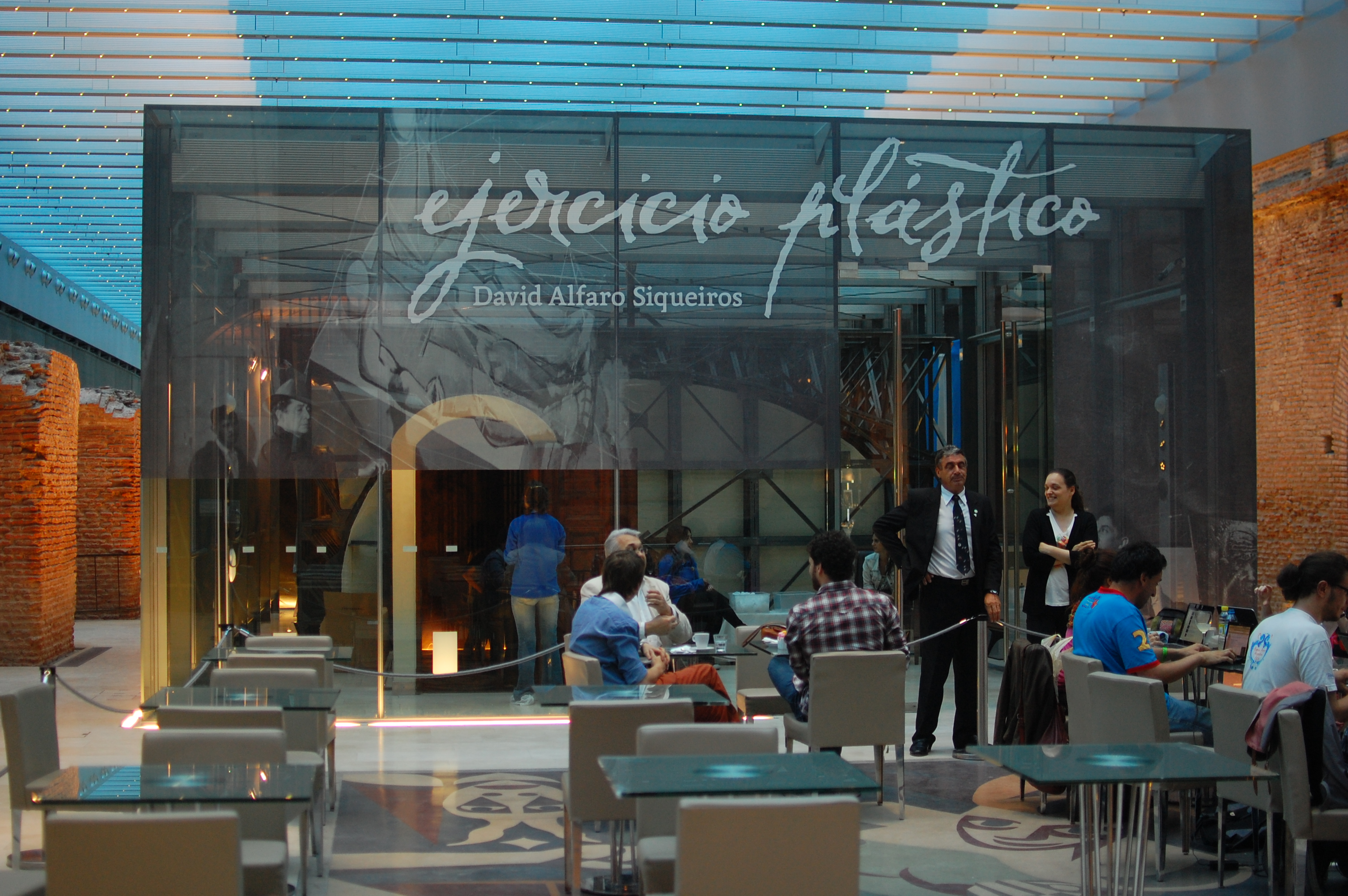 Enclosure where the mural, Plastic Exercise, by David Alfaro Siqueiros, is located, at the Museo del Bicentenario (Buenos Aires)